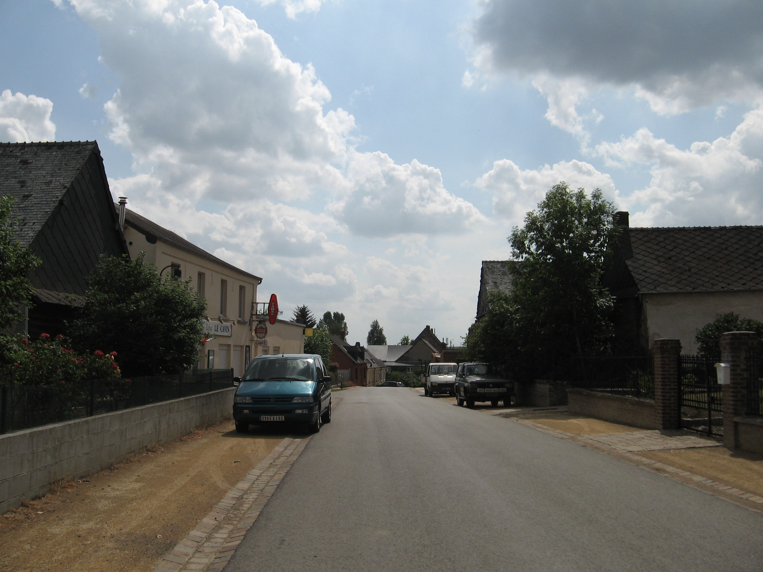 Main Street of Voulpaix